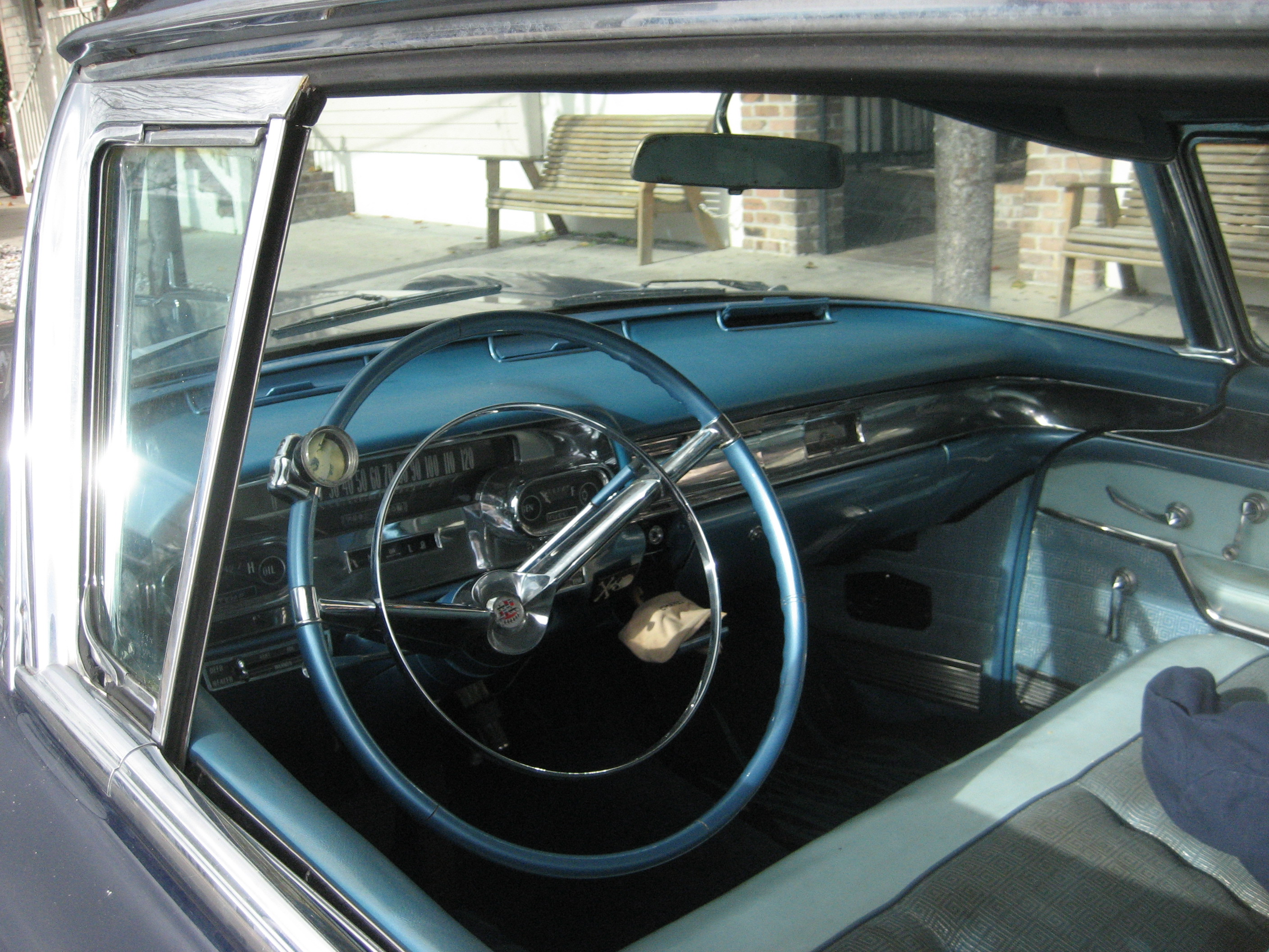 Steering wheel, 1950s Cadillac seen parked on Maple Street, Carrollton neighborhood, New Orleans.